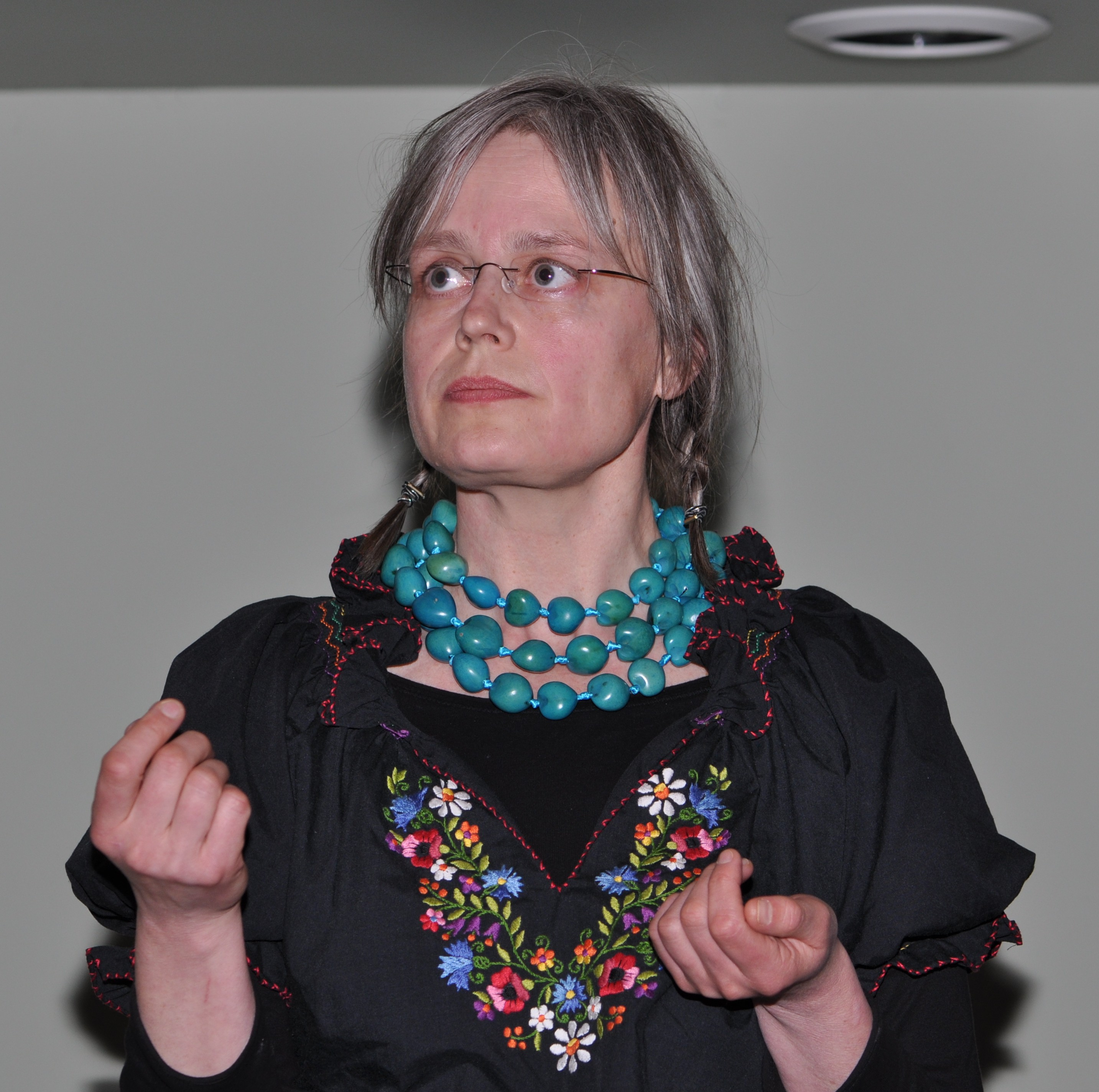 Auli Mantila, Finnish film director, Bio Rex, Helsinki, April 2009.